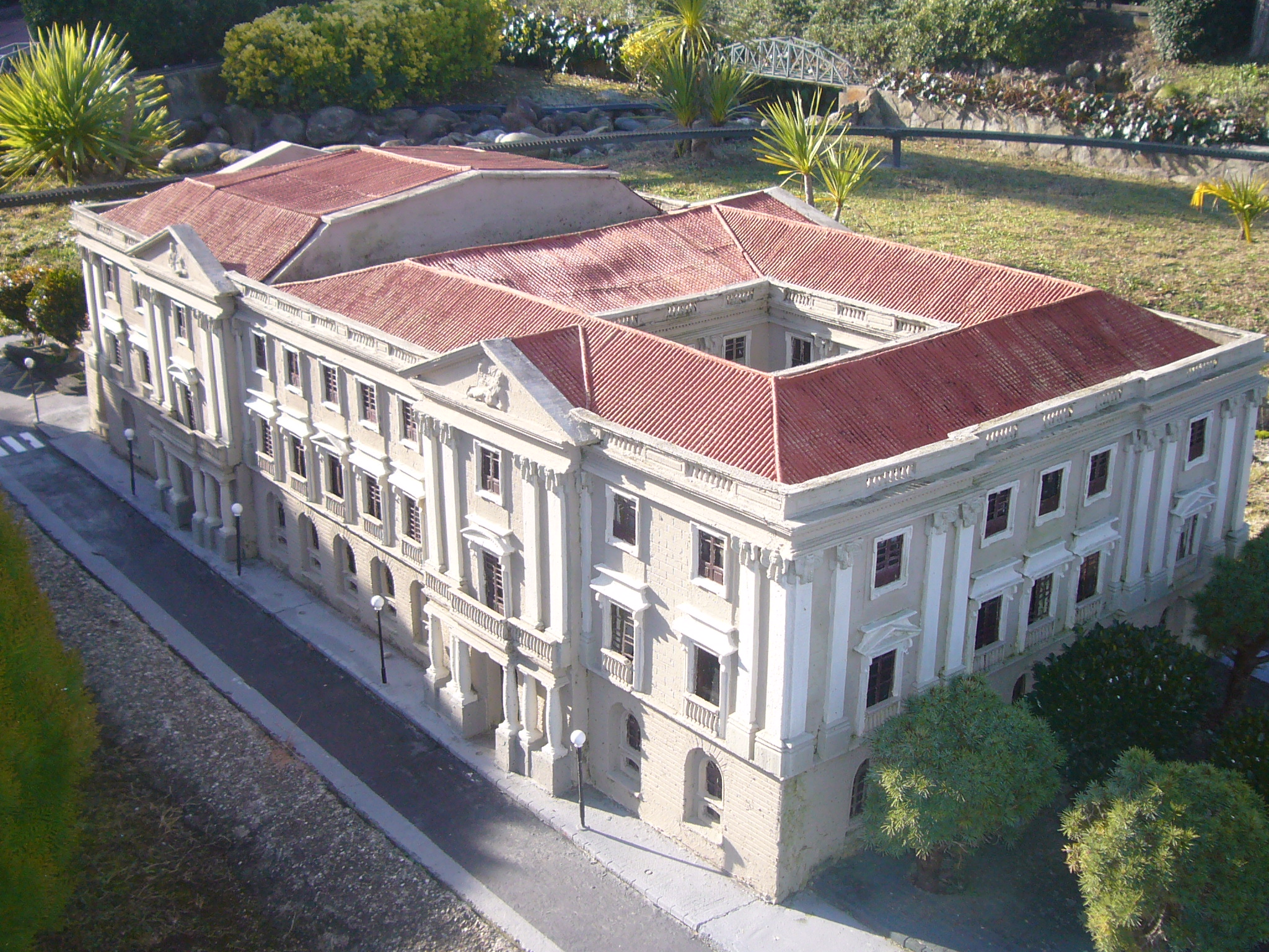 Scale model at the "Catalunya en Miniatura" miniature park : La Llotja de Mar (Barcelona).